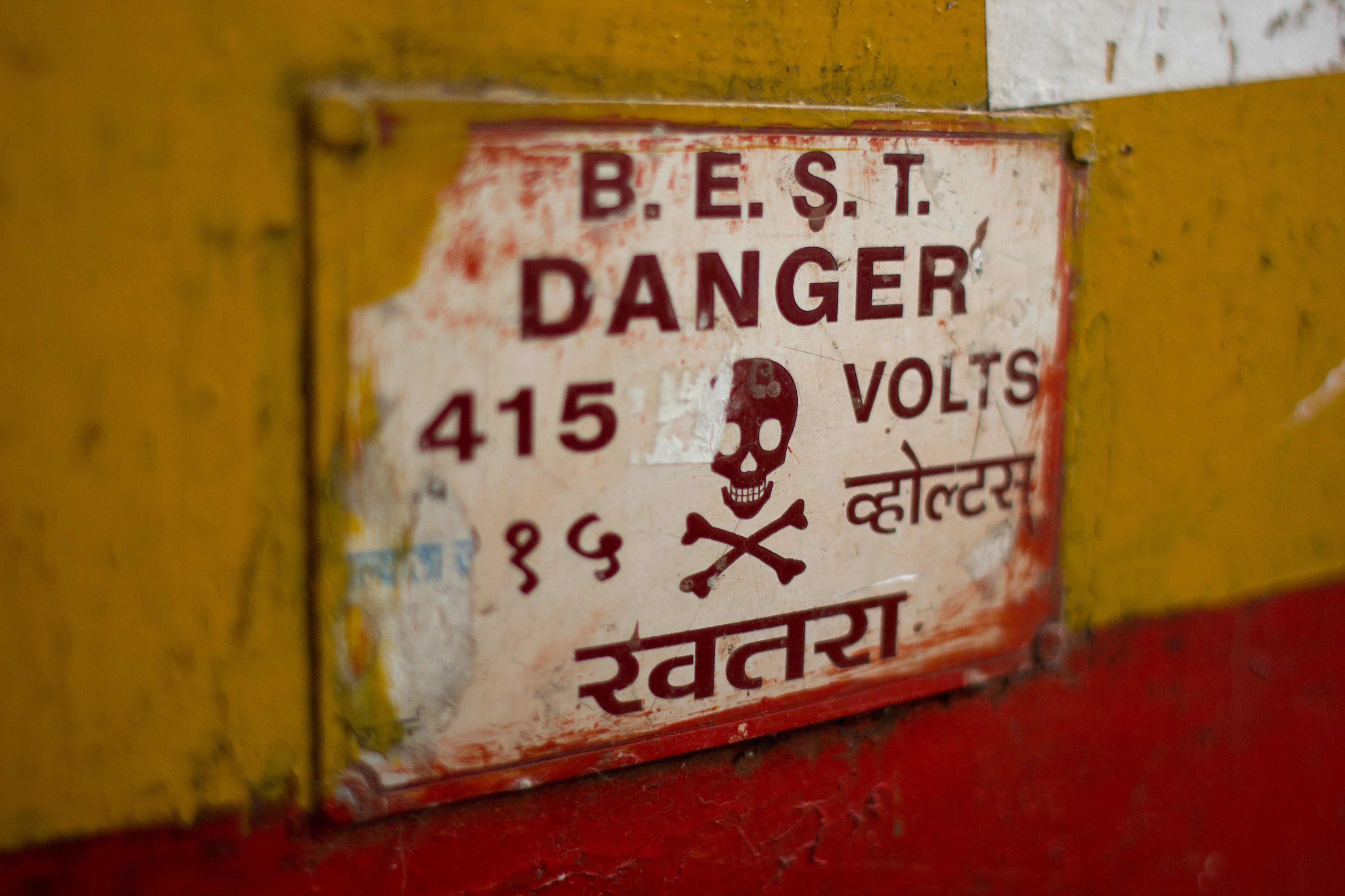 Danger Voltage warning sign in Mumbai